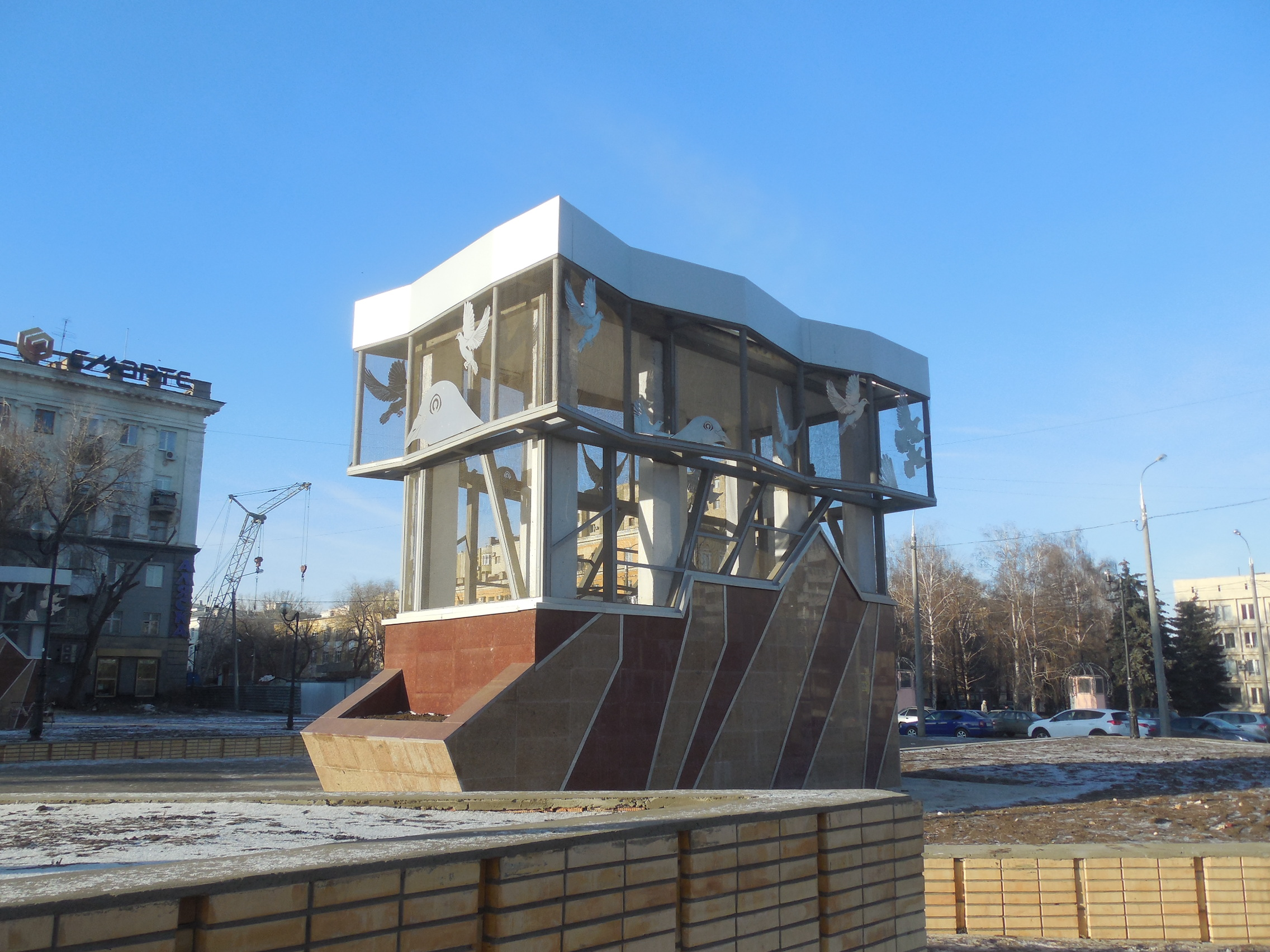 Samara metro, Alabinskaya station wait for opening